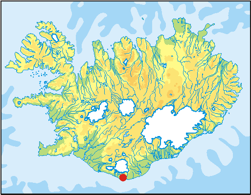 Location of Vík in Iceland